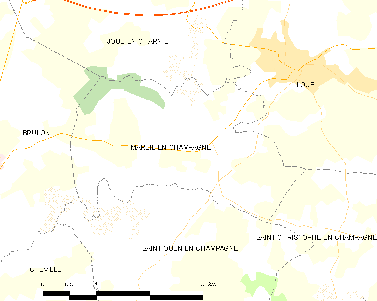 Map of French municipality